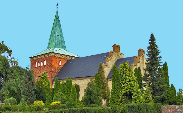 Systofte kirke, Falster, Denmark. The church from the southeast. Caption cropped from image.